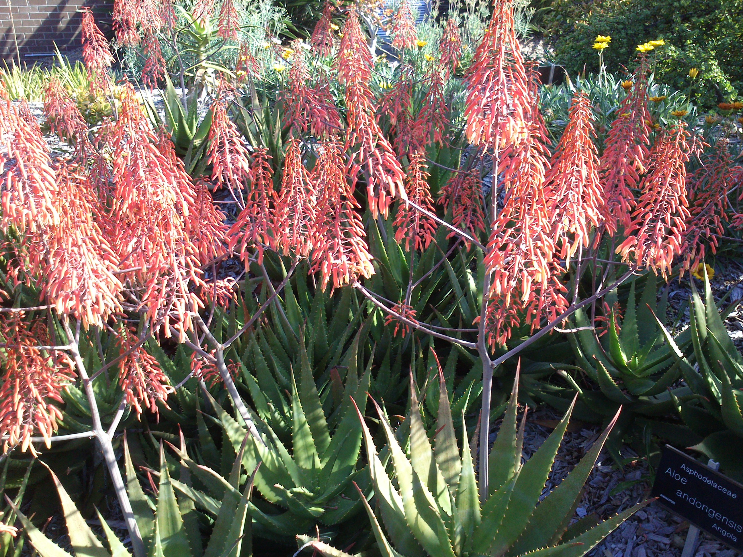 Aloe andongensis, Mt Coottha Botanical Gardens, Brisbane, Australia